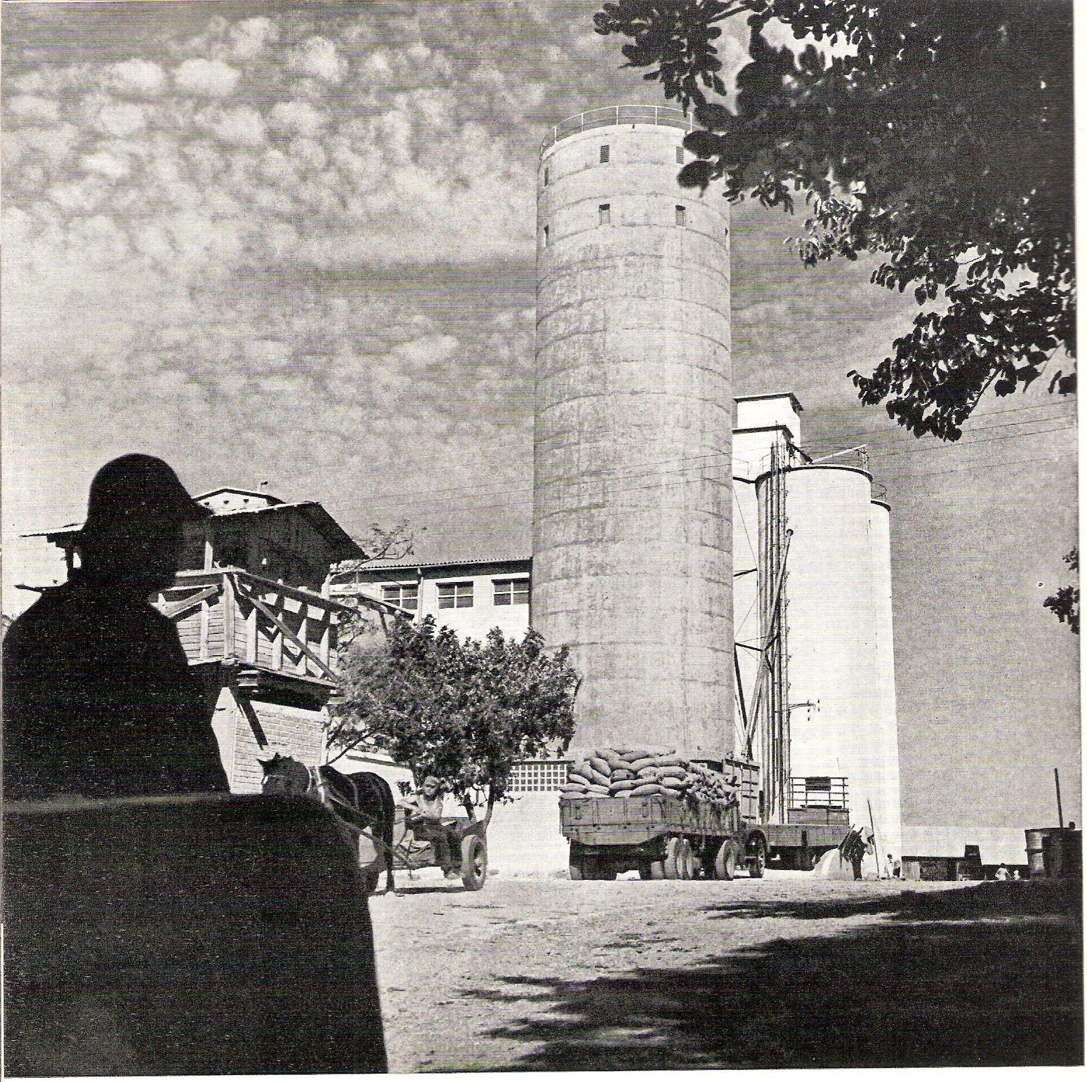 Kibbutz Sha'ar Ha'amakim in the 1950's